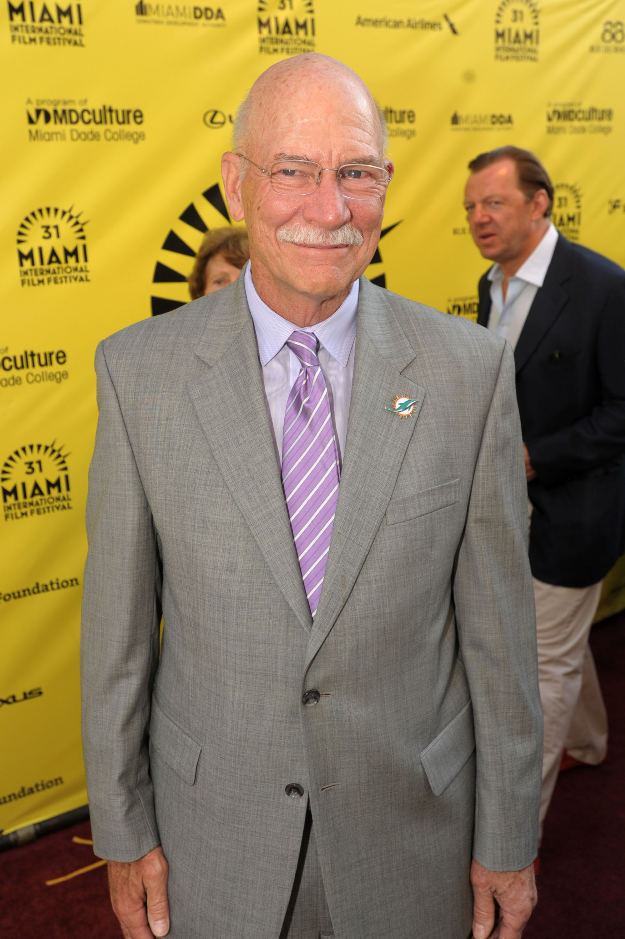 Dick Anderson at the 2014 Miami International Film Festival presentation of "An Unbreakable bond" Photo by: World Red Eye